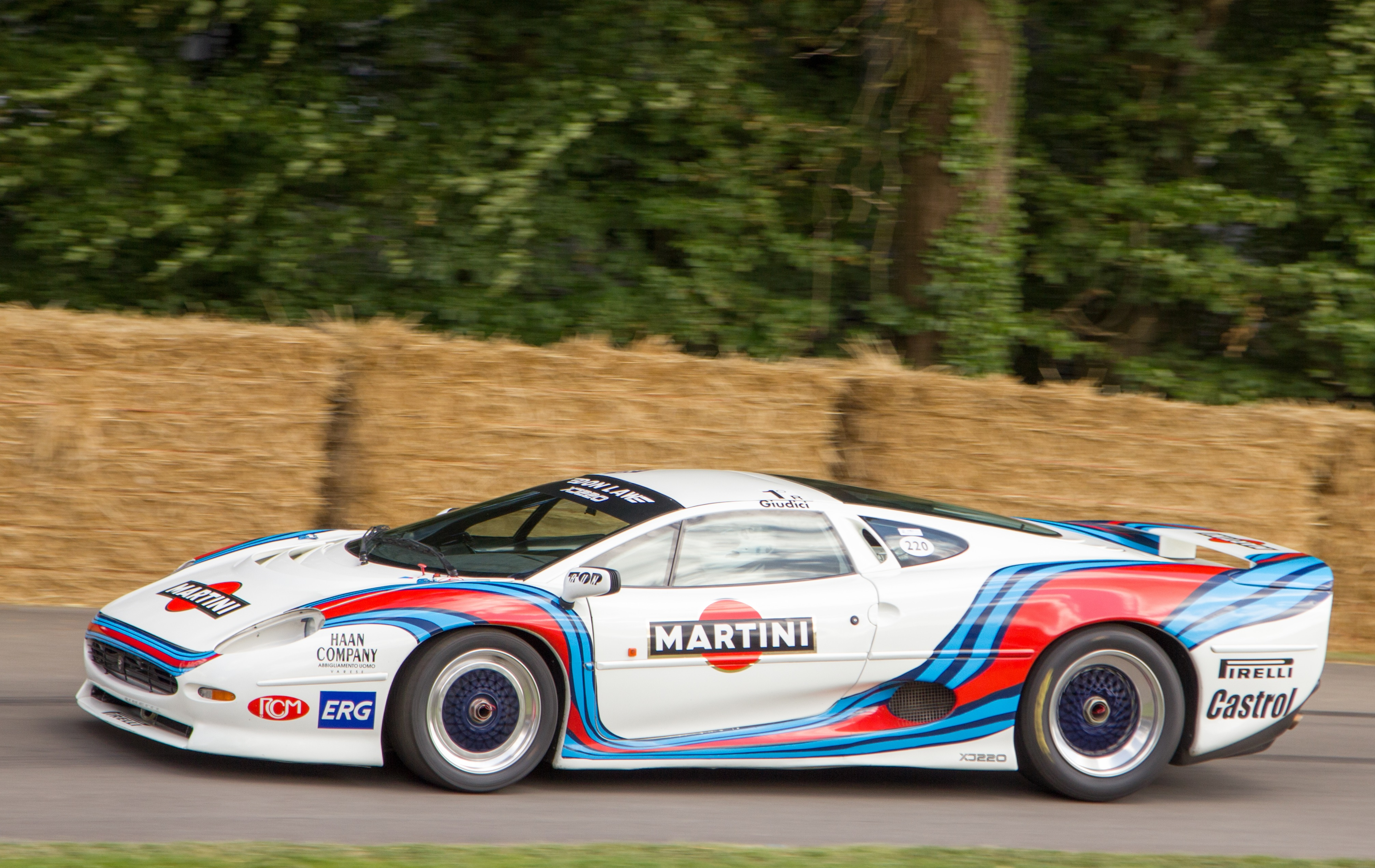 The Jaguar XJ220 at the 2014 Goodwood Festival of Speed.